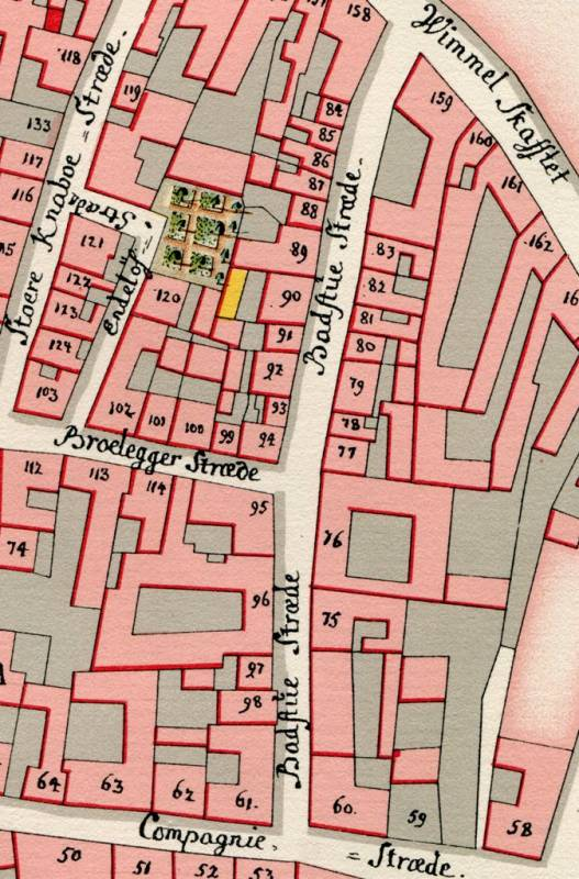 Badstuestræde seen on Gedde's district map of Copenhagen, Denmark